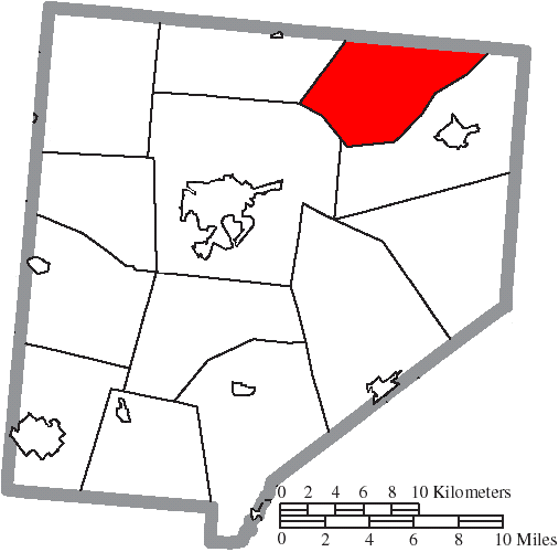 Map of the municipal and township boundaries of Clinton County, Ohio, United States, as of the 2000 census, with the location of Wilson Township highlighted. Township borders are shown only in unincorporated areas in order to differentiate incorporated and unincorporated areas more clearly.